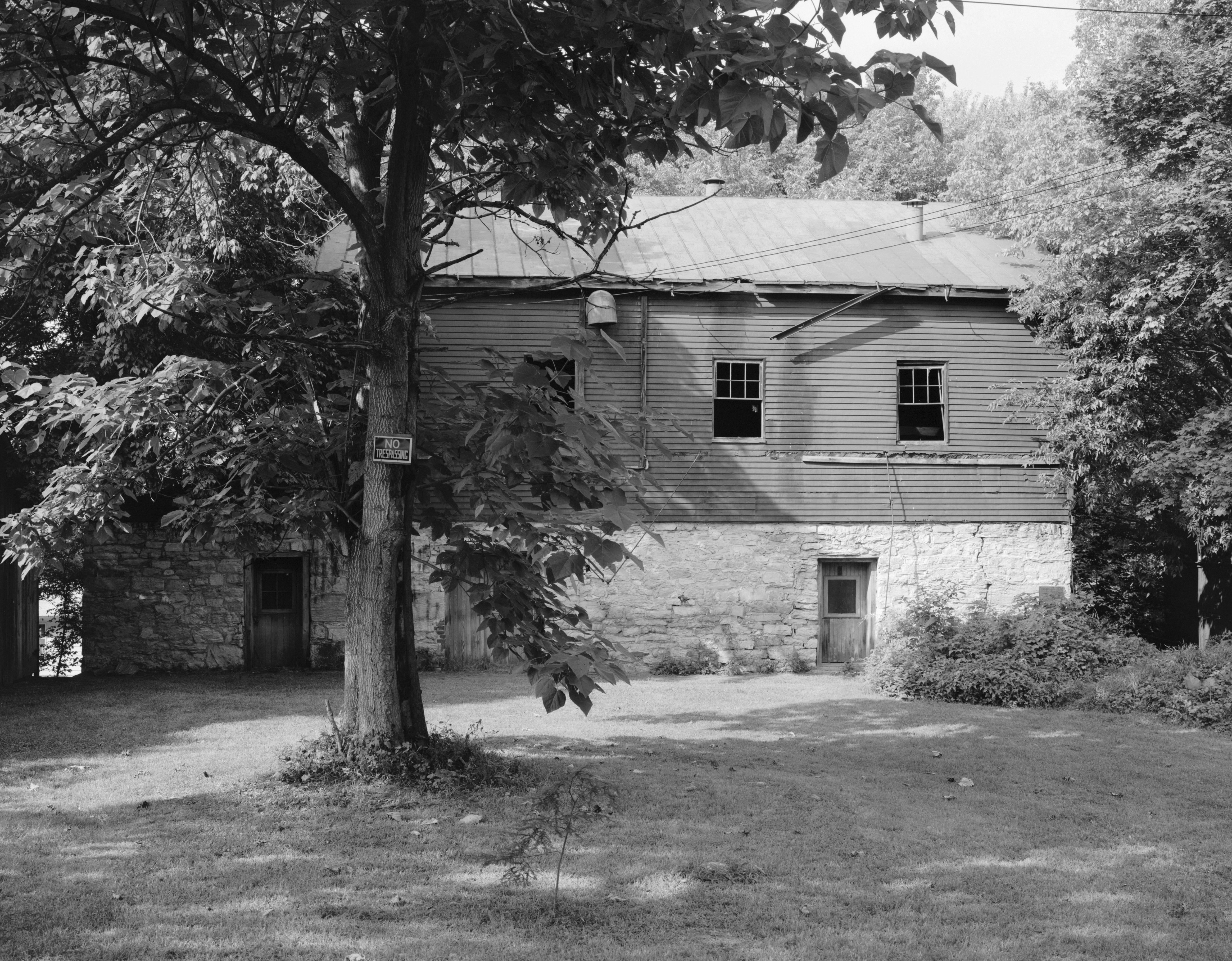 Southern side of Thomas Shepherd's Grist Mill, located along High Street in Shepherdstown, West Virginia, United States. Built in 1734, it is listed on the National Register of Historic Places.